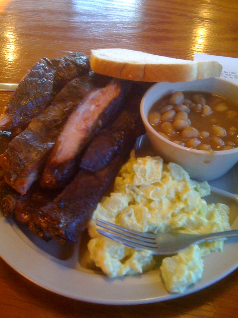 Uploaded with AirMe Boar's Nest BBQ, Fayettevile AR.